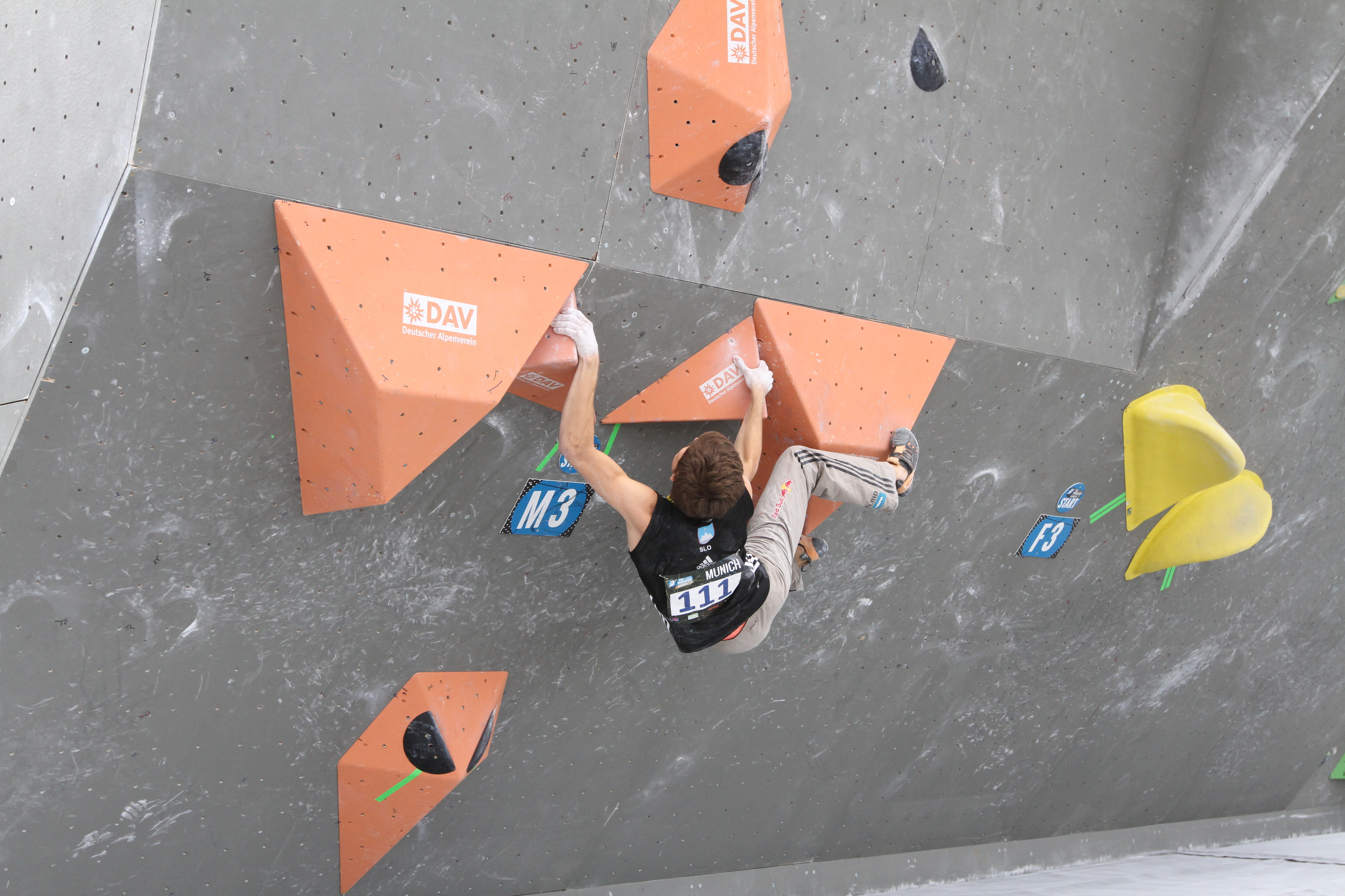 IFSC Boulder Worldcup, Munich 2015. Domen Skofic (SLO)